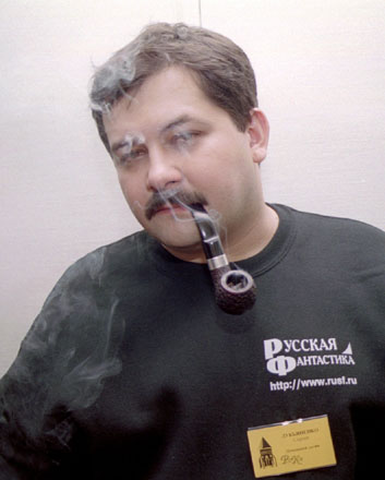 Sergey Lukyanenko in 2001, picture from the writer's official site taken by Dmitri Novikov, and used under the GFDL with permission.